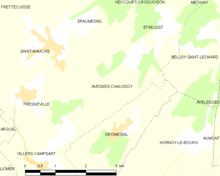 Map of French municipality Avesnes-Chaussoy